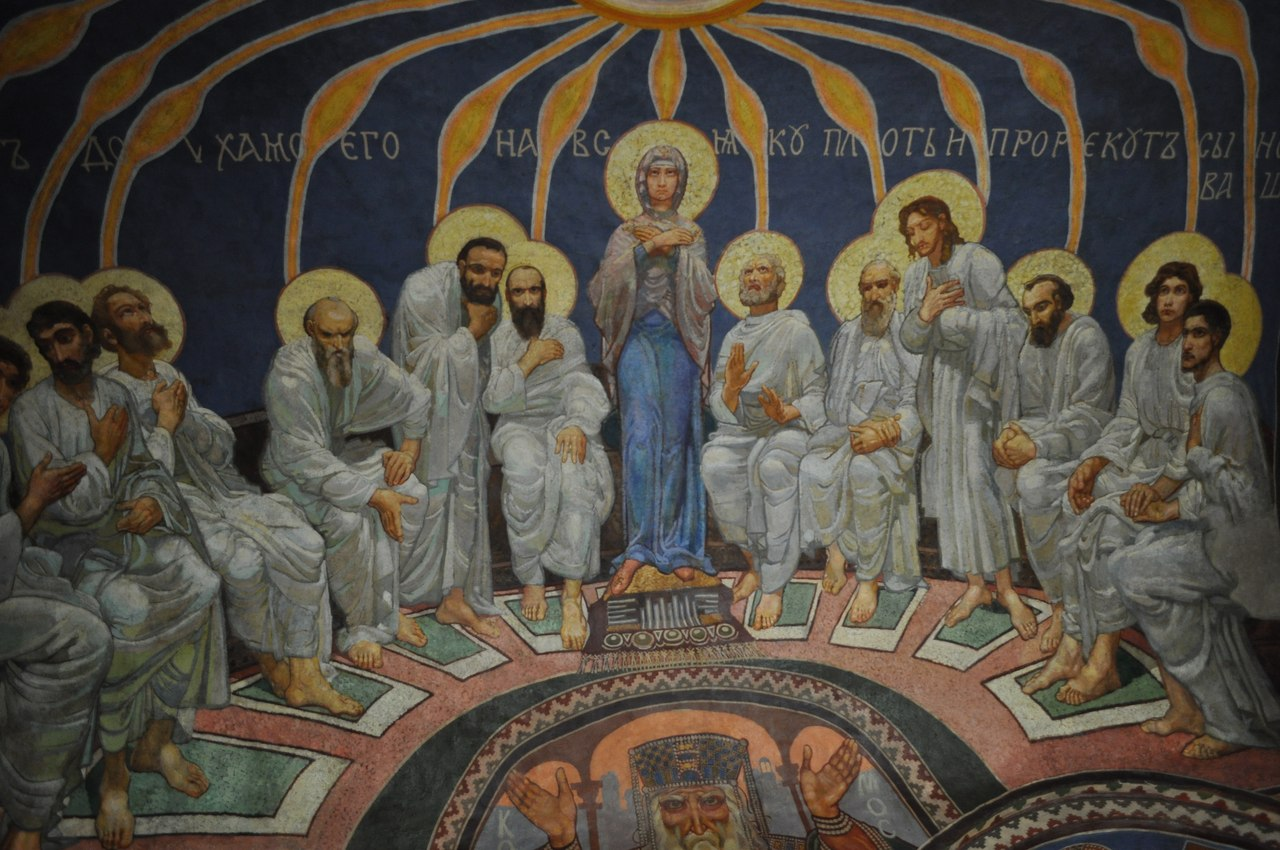 Throughout the centuries, the church suffered more than once from devastating enemy raids and a devastating fire